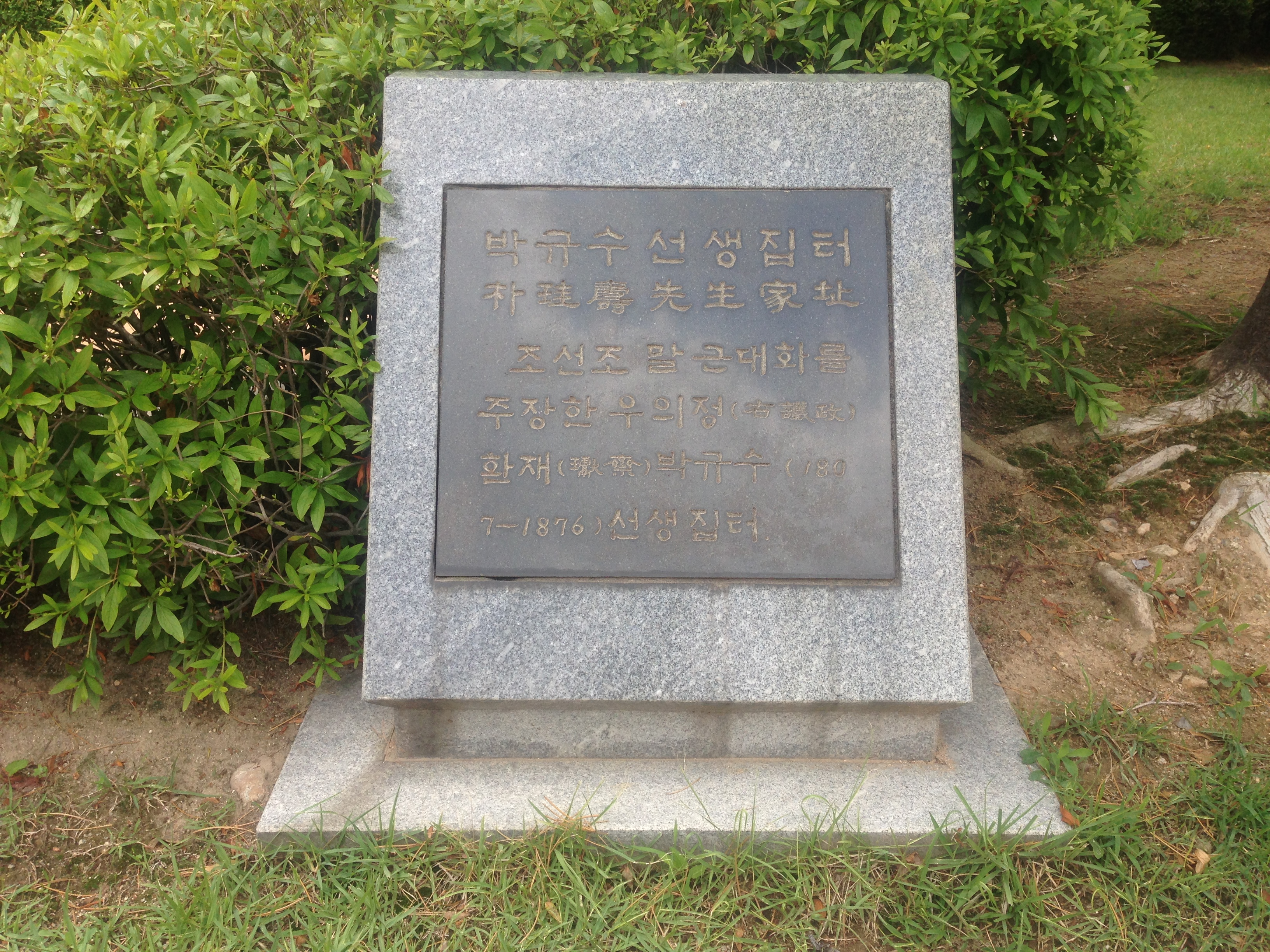 the Birthplace of Park Gyu-su in Seoul, Southkorea